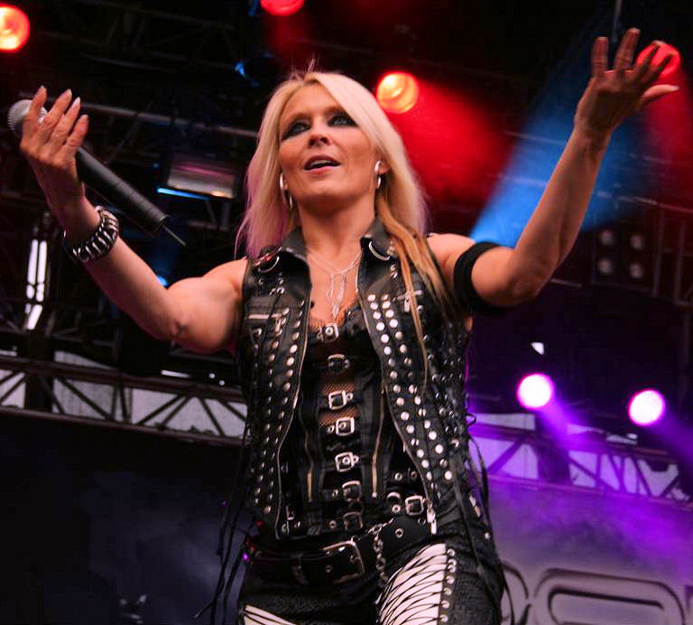 Doro at Norway Rock Festival 2009